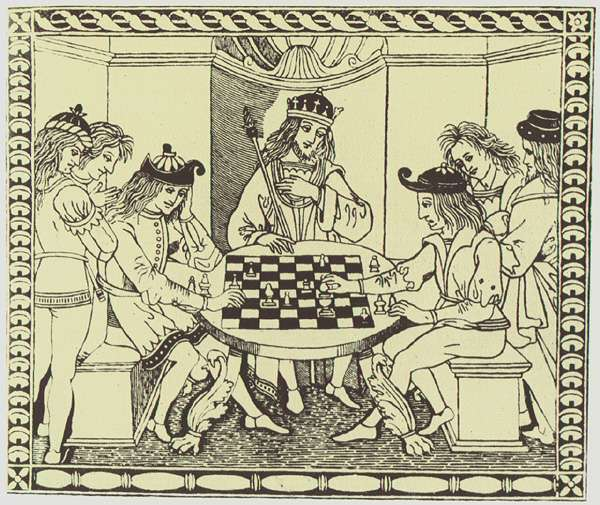 Woodcuts from an italian chess treatise.